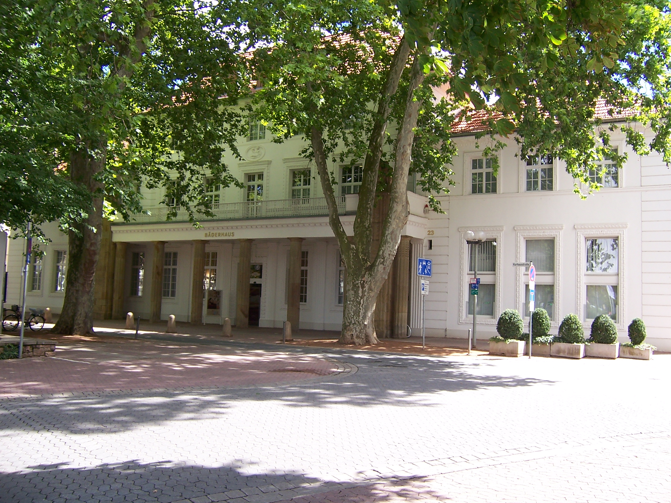 Bäderhaus, a sauna spa in Bad Kreuznach